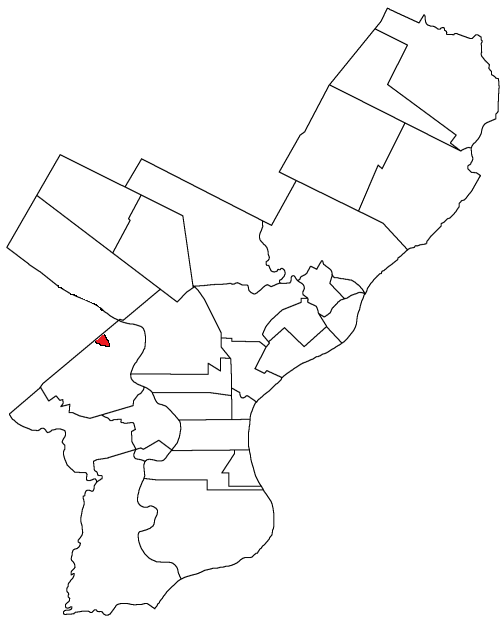 This map shows where Belmont Village is located in the context of Philadelphia as a whole.